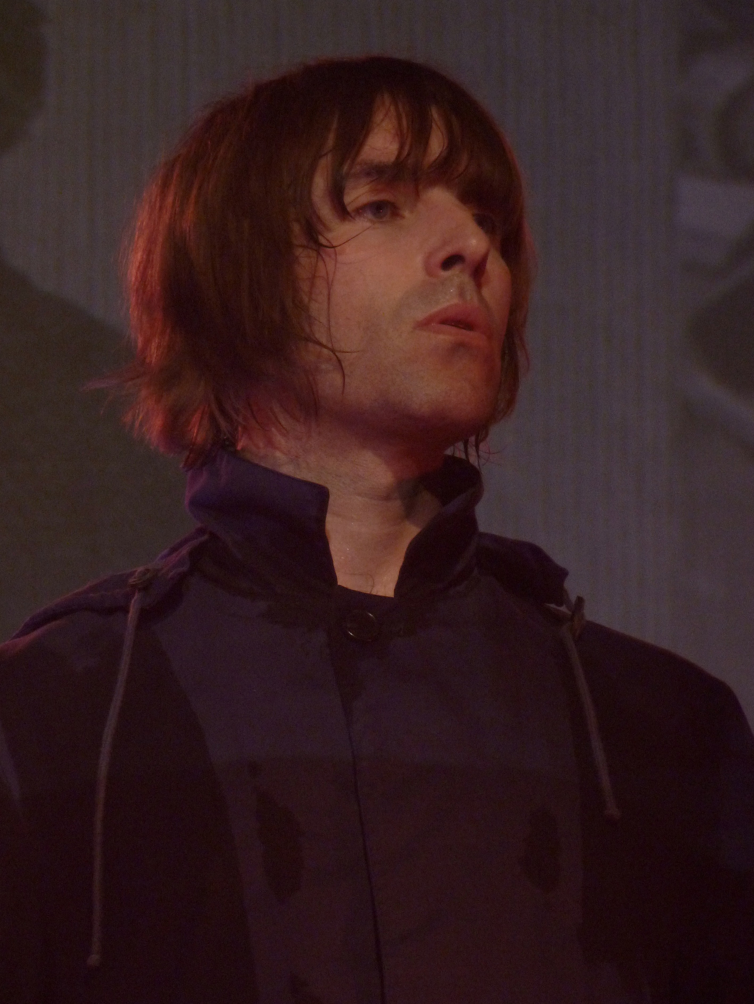 More photos here